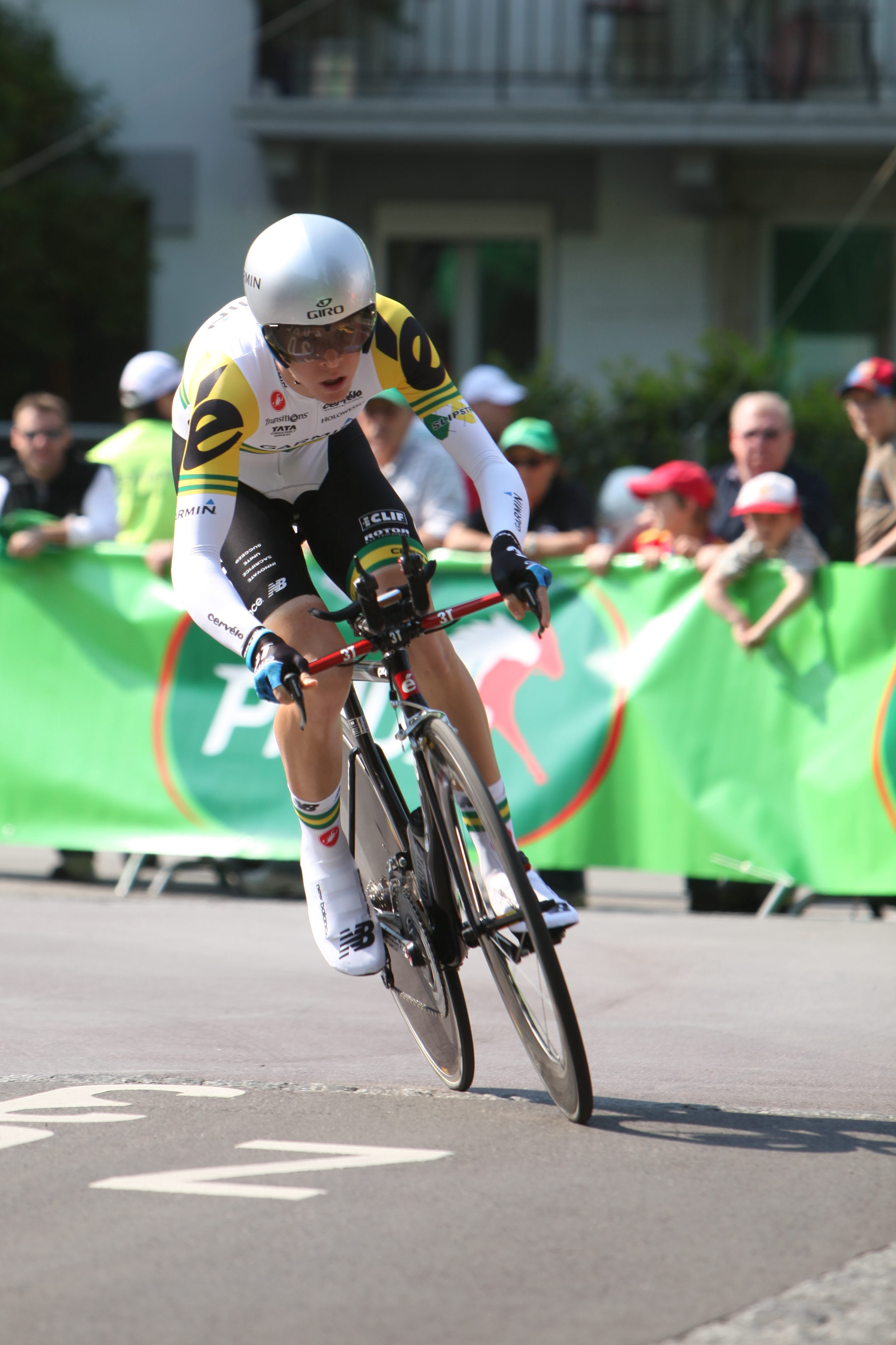 Cameron Meyer at the prologue of the Tour de Romandie 2011